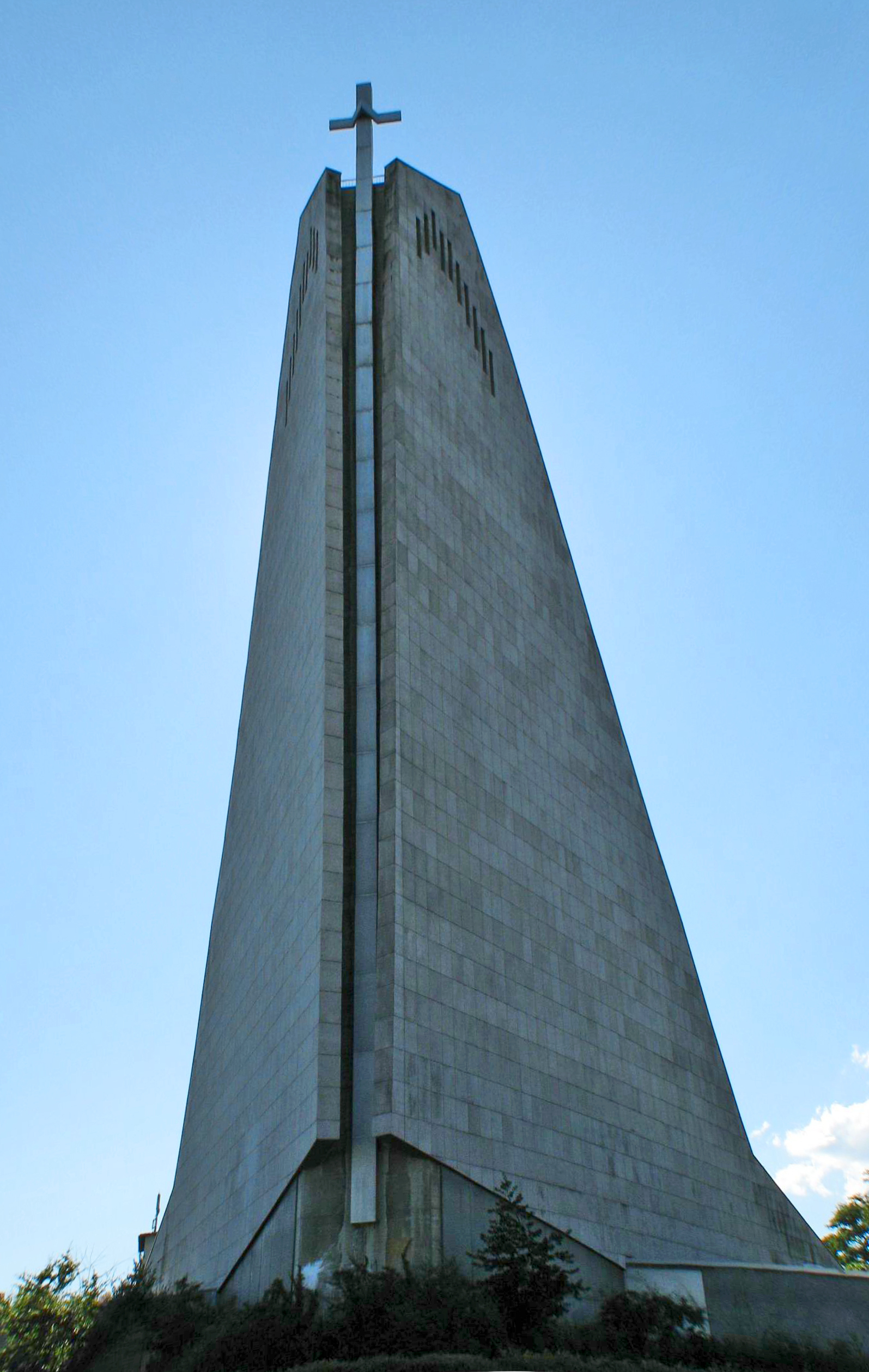 Mariä Heimsuchung (Mary's Visitation) in Wiesbaden, Hesse, Germany, is a Catholic church in Kohlheck, part of Wiesbaden's suburb of Dotzheim, consecrated in 1966.